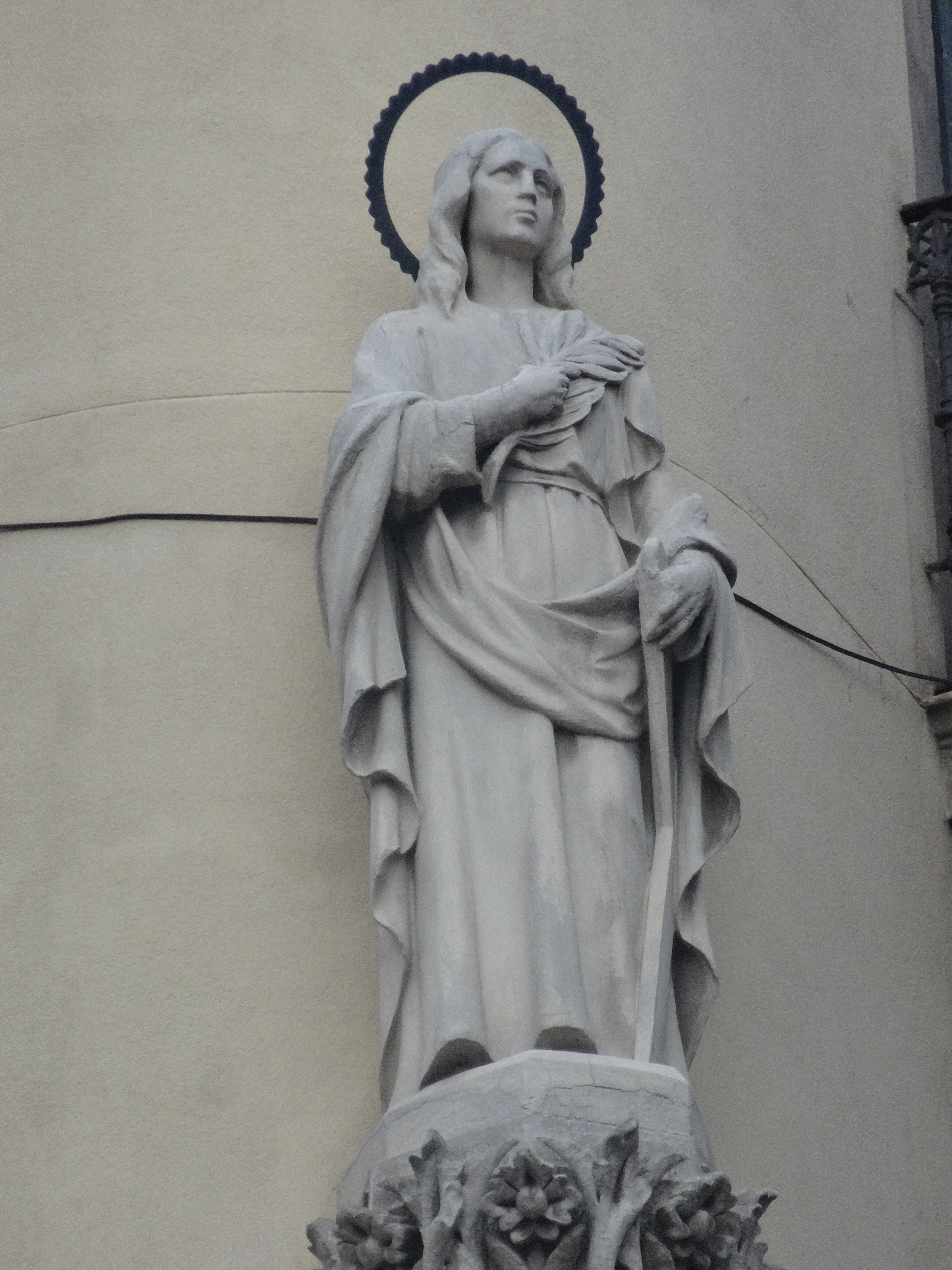 Estàtua de Santa Eulàlia a l'edifici del carrer Boqueria 1-7 amb Salvador Casañas 2